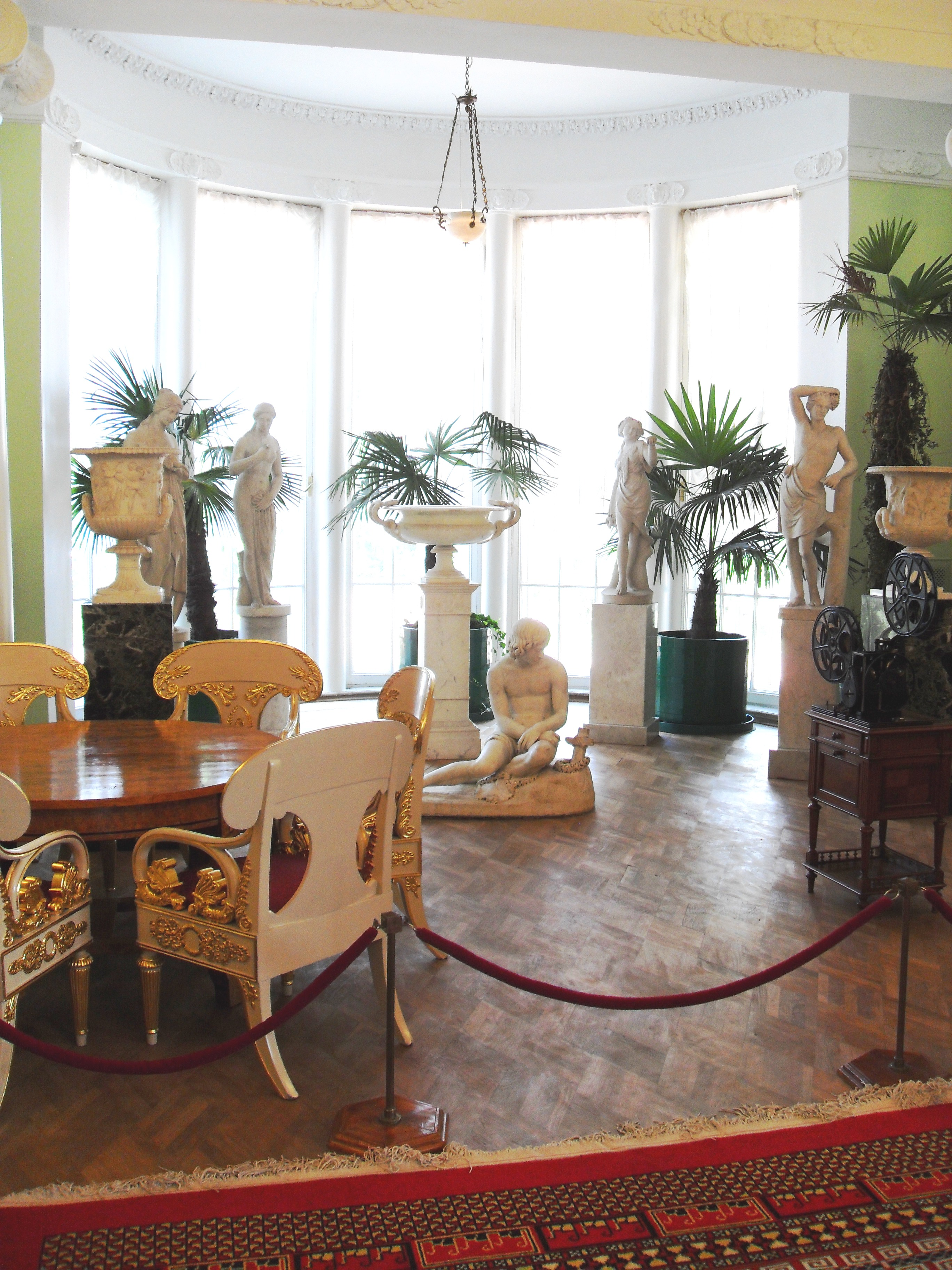 Interior view of the Lenin museum in Gorki Leninskiye with furniture, statues and other objects from the XVIII to the XIX century and personal objects of the Lenin family.